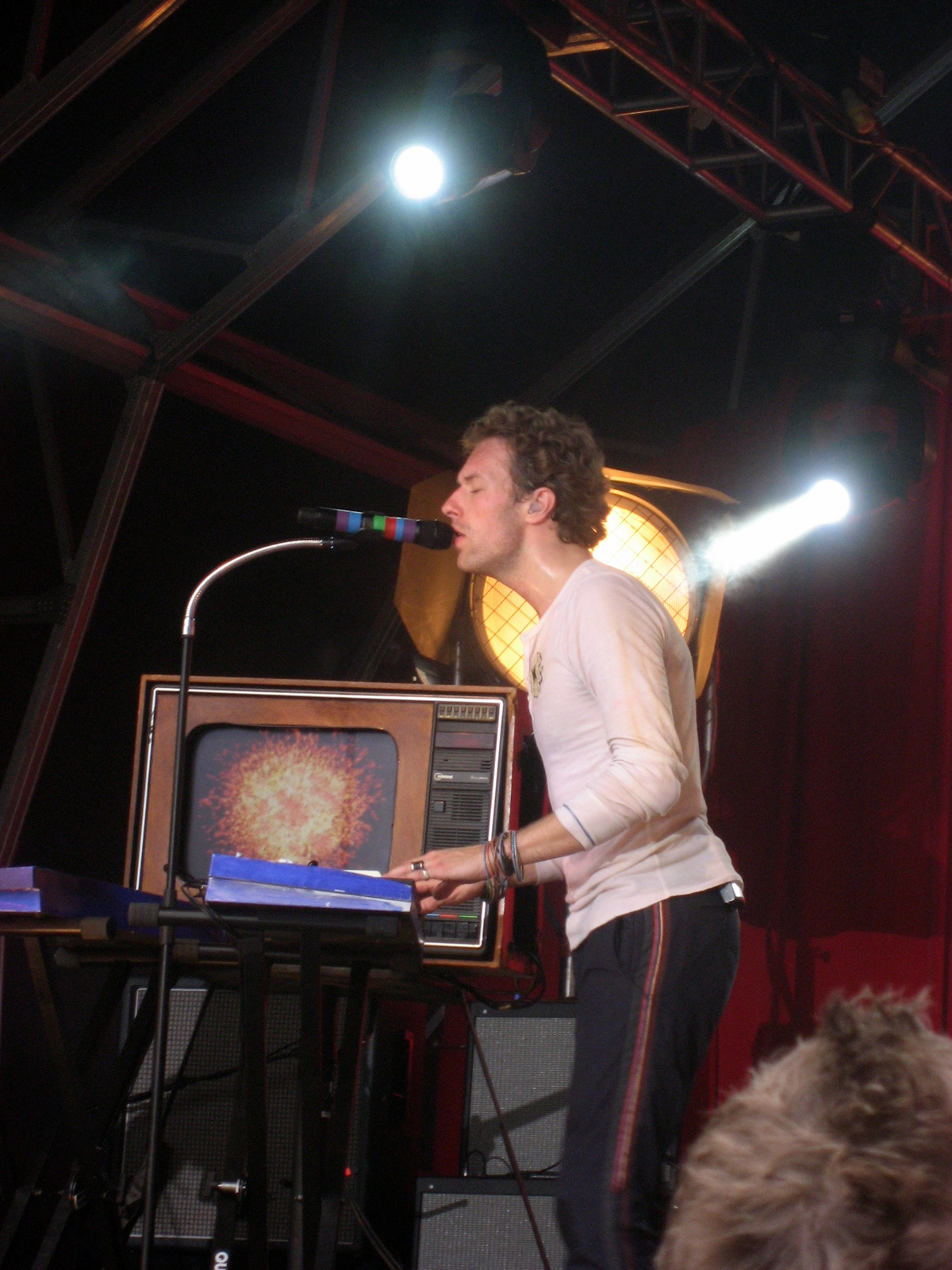 Chris Martin playing the Piano